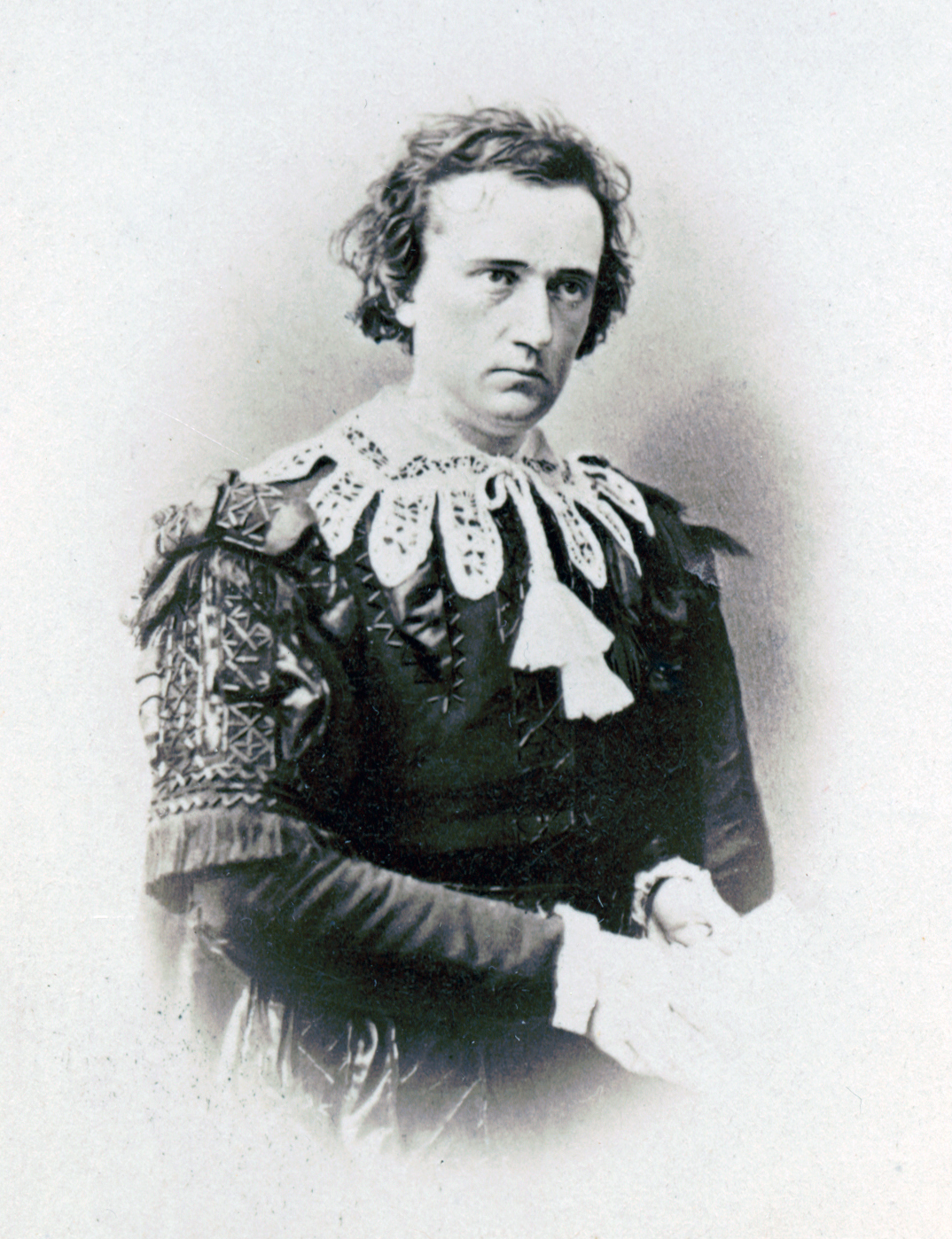 Swedish actor Edvard Swartz (1826-1897) as Hamlet.